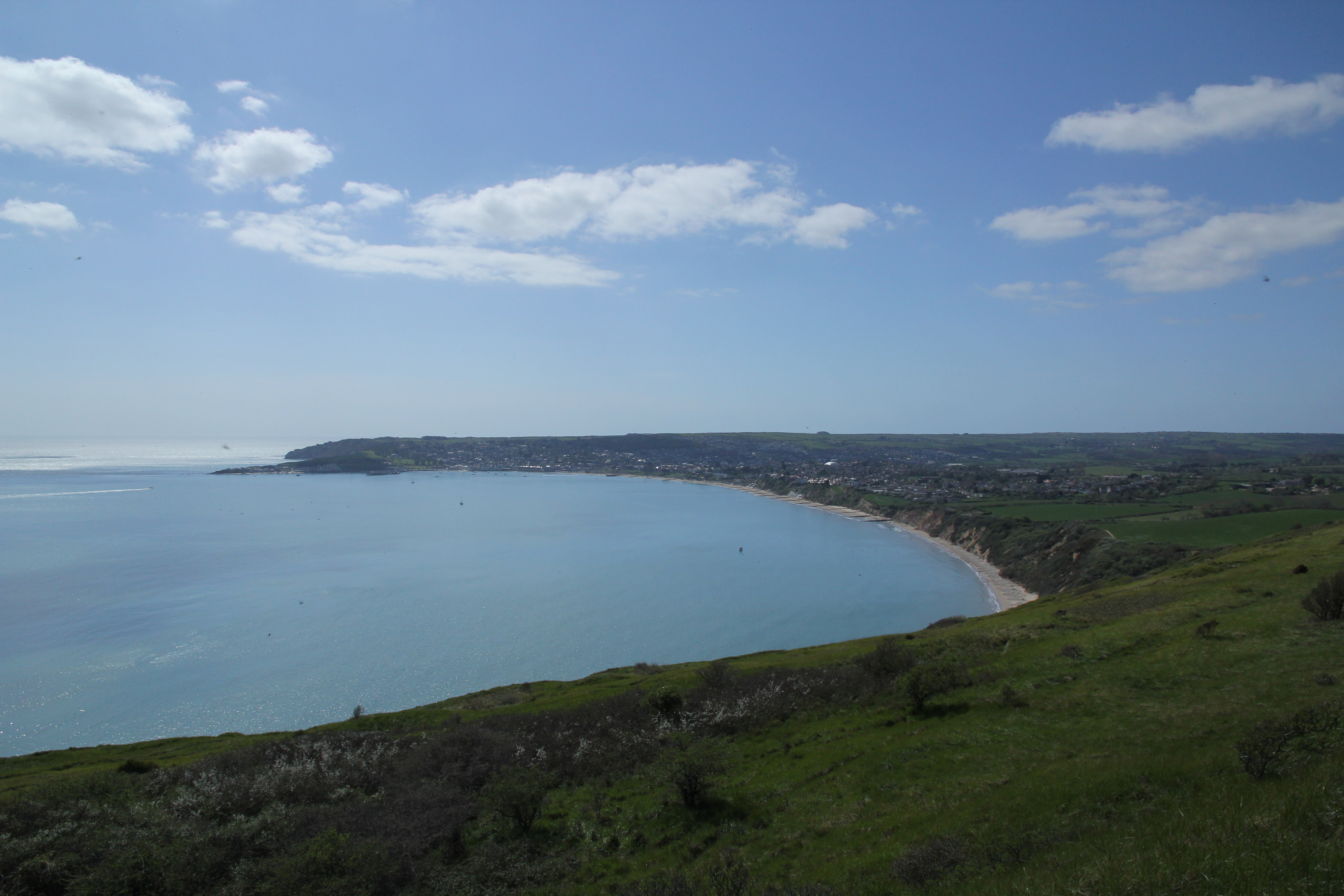 Swanage Bay, Dorset, from the north.